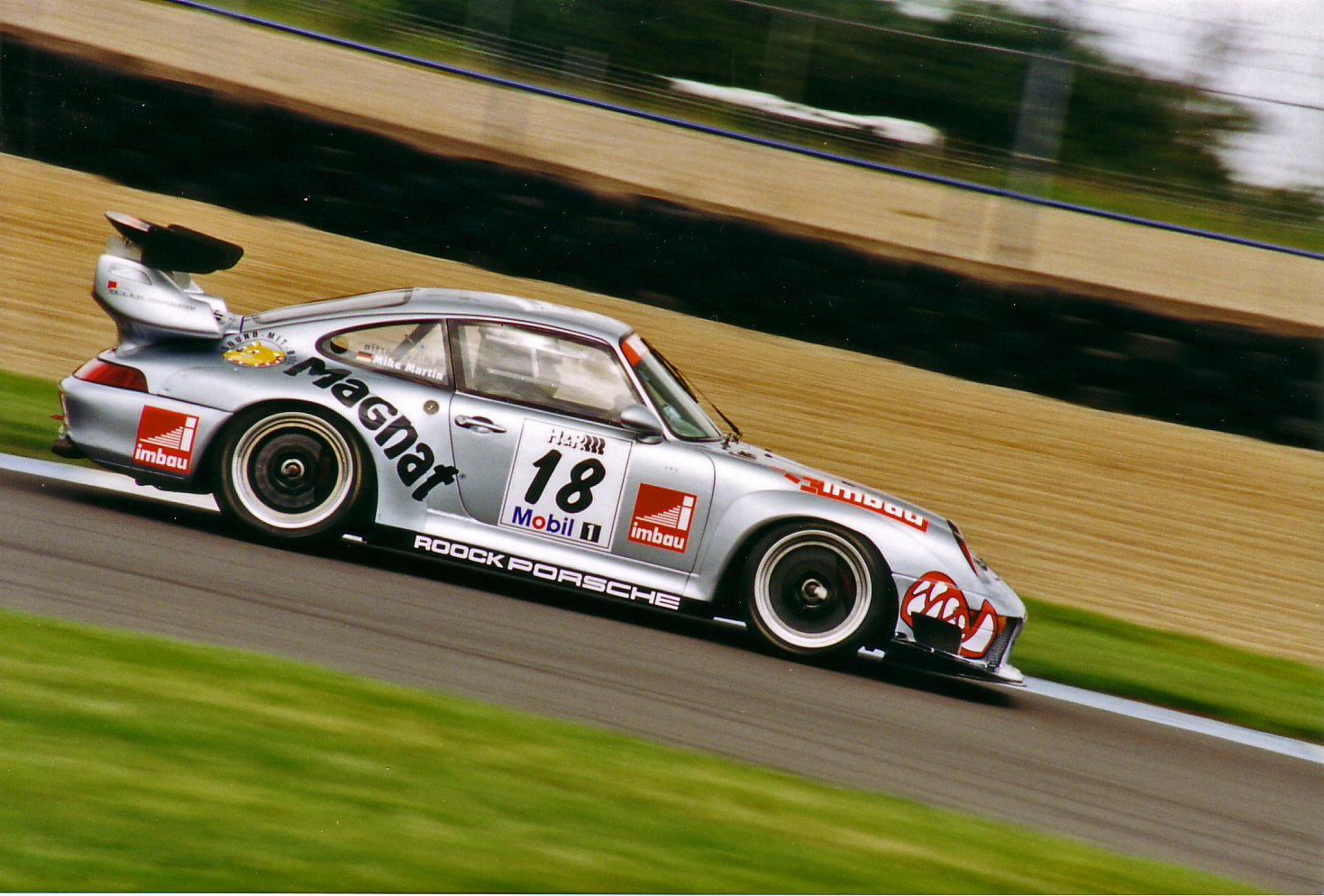 Porsche 911 GT2 (993) Mike Martin Donington 5th July 1997